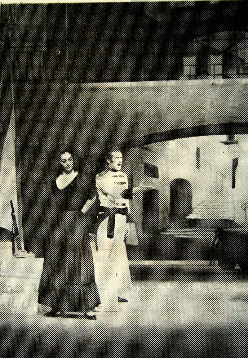 From Georges Bizet's 1875 opera Carmen at Roudaki Hall, Tehran, Persia (Iran), May 1975. The Persian singer Pari Samar as 'Carmen'. -- Copyright Note: This photo for the first time was published on May 10th, 1975 in the English-language daily Kayhan International. According to Iran's Law, such works' copyright will be expired after 30 years (May 2005).